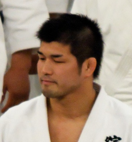 Inoue Kosei (井上康生) All-Japan Judo Championships in 2008